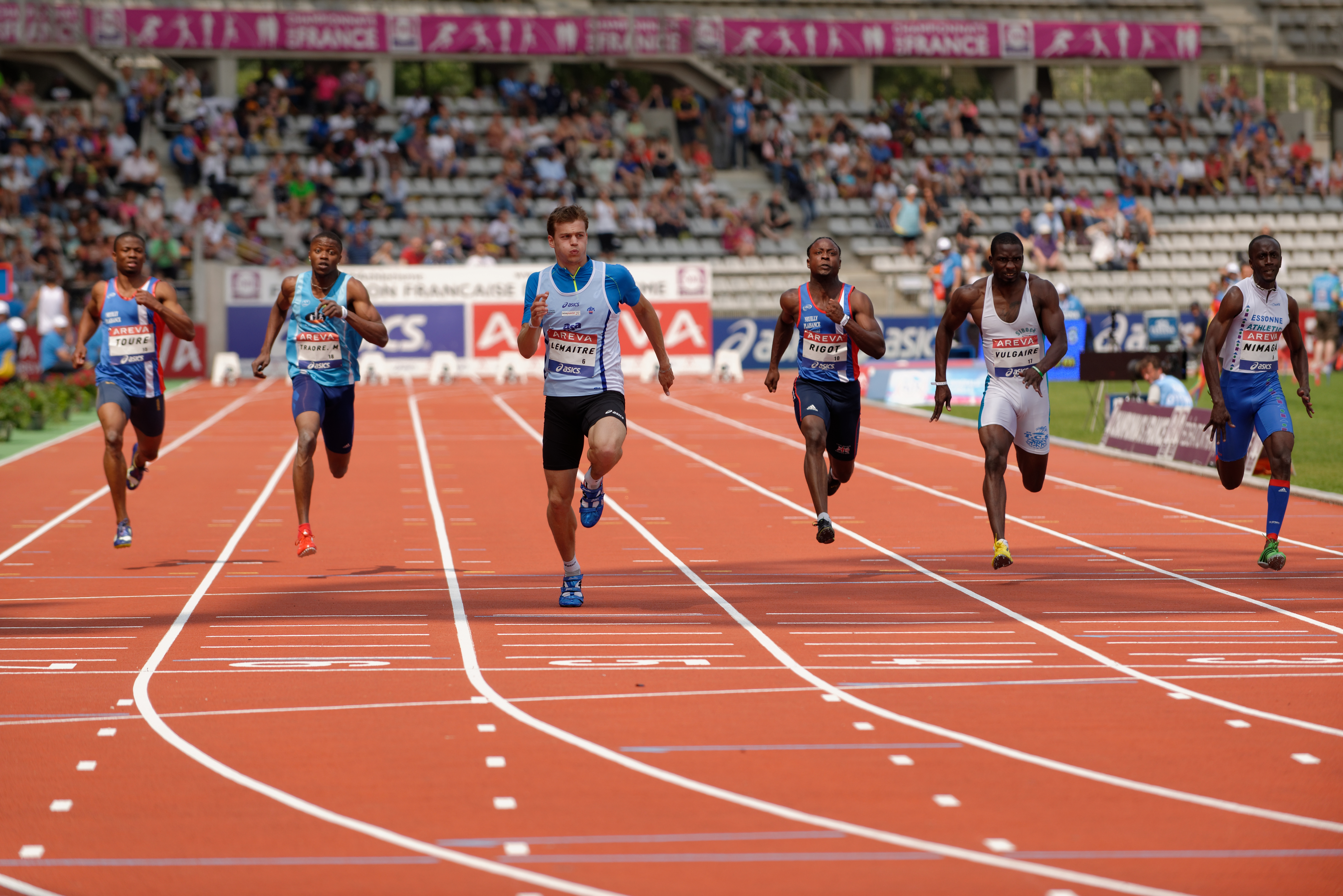 Christophe Lemaître wins the first series of the men's 100-metre race in 10"26 during the French Athletics Championships 2013 at Stade Charléty in Paris, 13 July 2013.